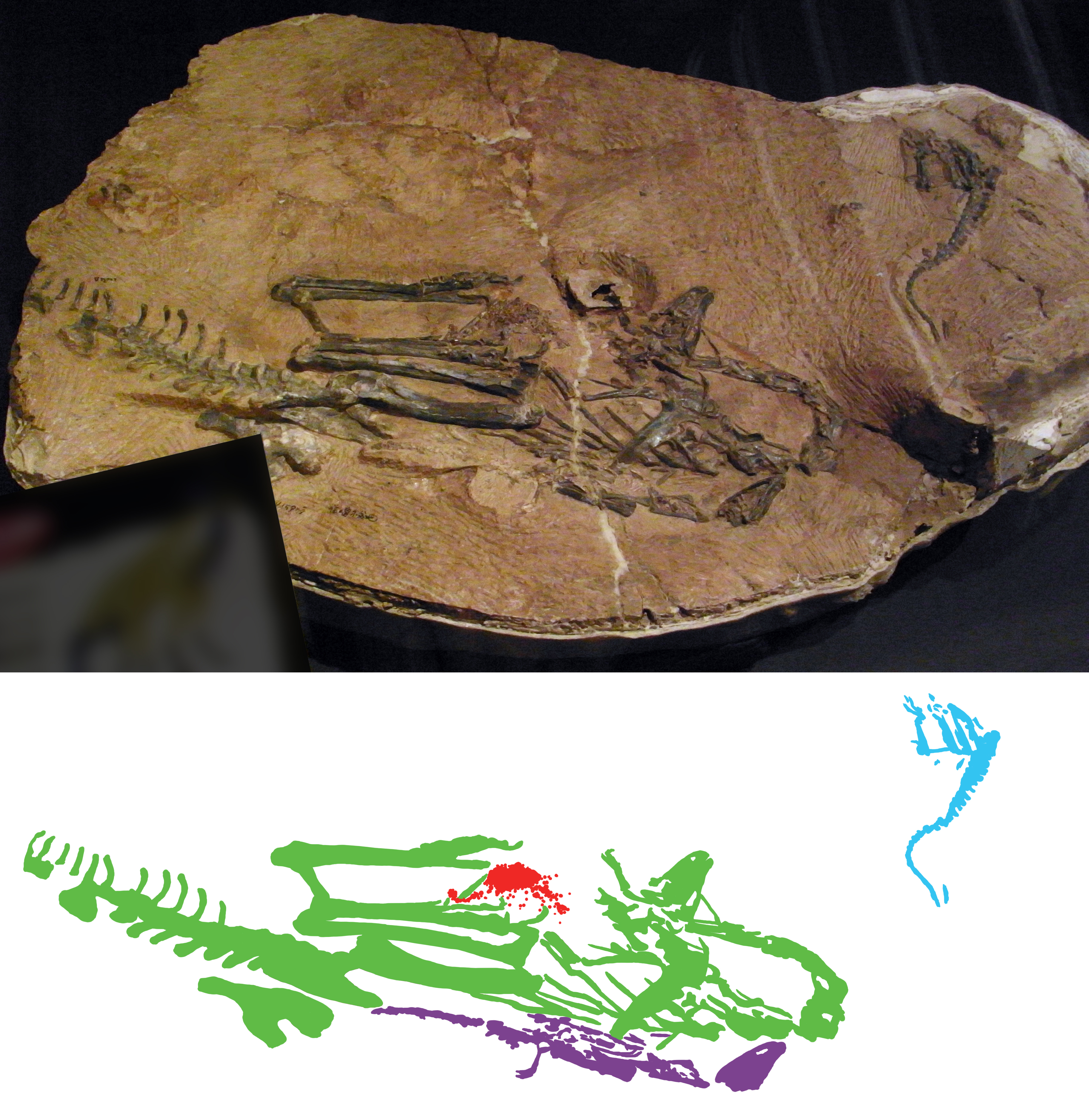 Slab containing Limusaurus inextricabilis holotype (green), gastroliths (red), assigned specimen (blue), and crocodyliform (purple). Outlines based on those in the following papers:[1][2]